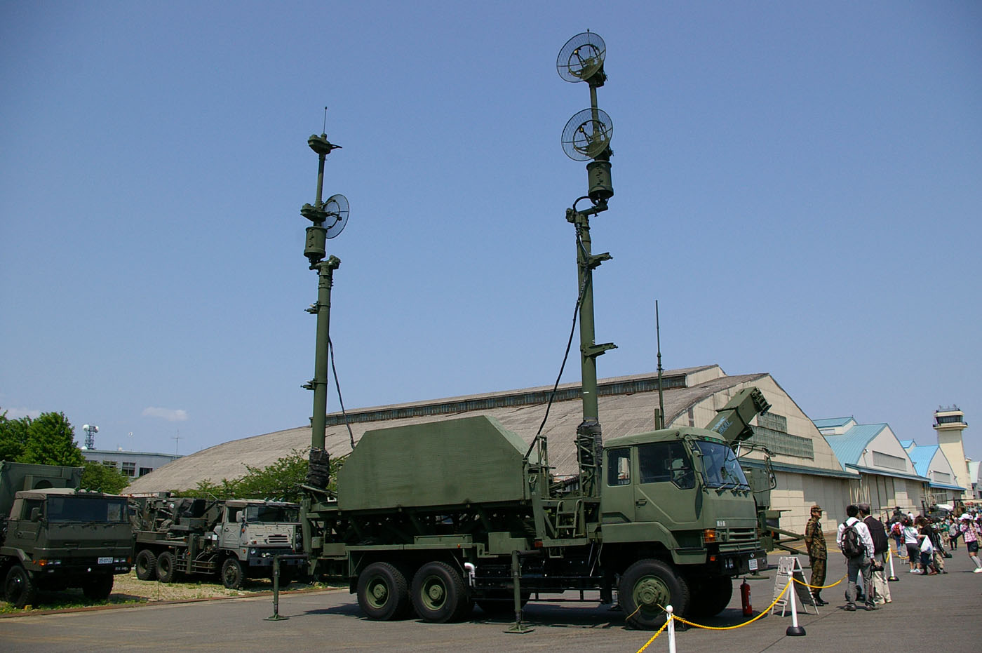 Taken by los688,18-May-2008,JASDF Camp Kasumigaura.PD-self.JASDF Patriot PAC3 AMG.